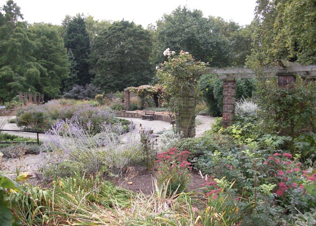 Ada Salter Rose Garden. Southwark Park, Rotherhithe, London, SE16 Opened in 1936 and named after Ada Salter (1869-1942), wife of Dr Alfred Salter (1873-1945), the "sixpenny doctor". In 1902 they had a daughter, Joyce, and they debated whether to stay in Bermondsey or move to Kent for the cleaner air. They chose Bermondsey. Joyce died in 1910 of scarlet fever.